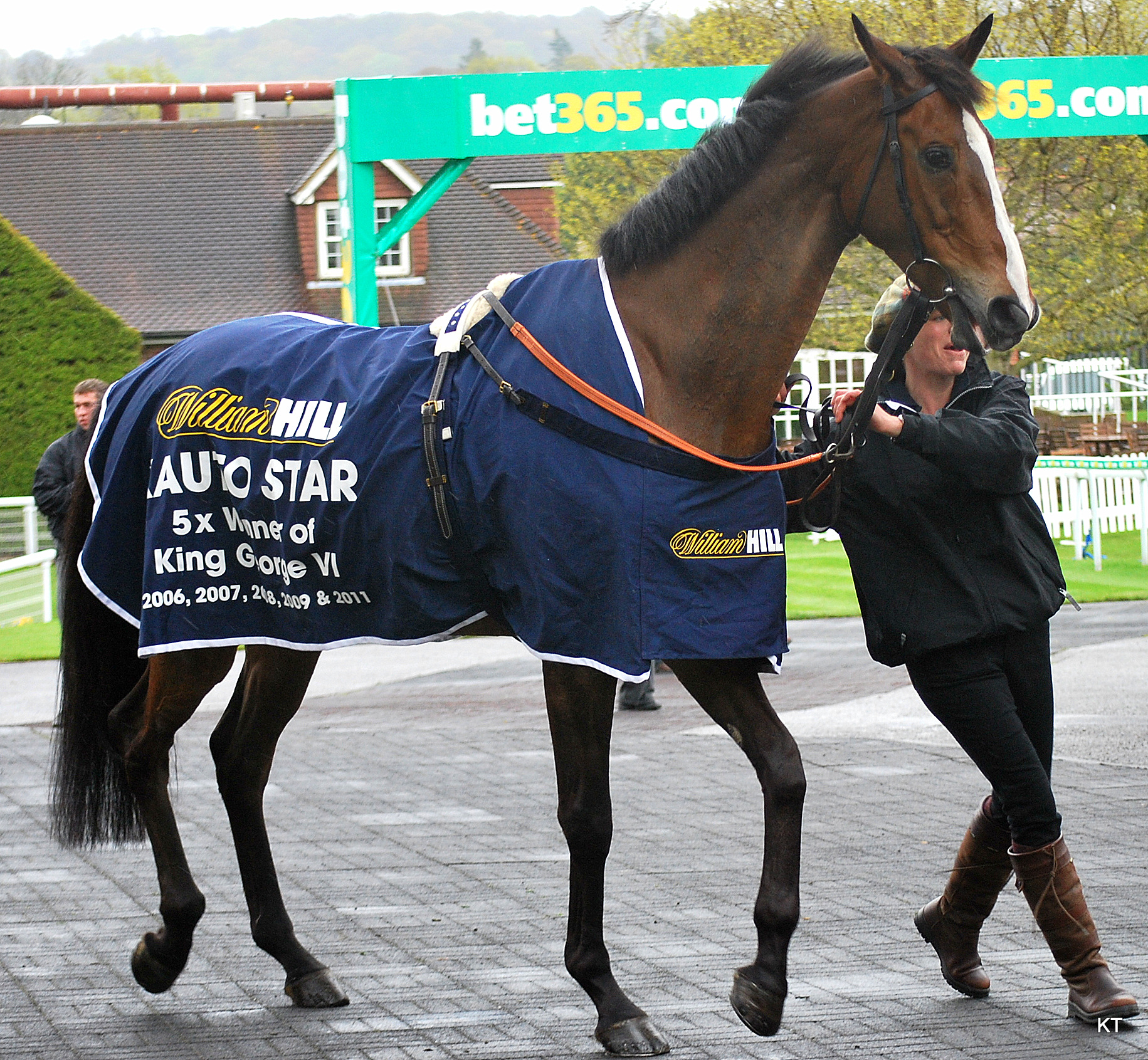 Kauto Star after the Champions Parade at Sandown on bet365 Gold Cup Day, April 28th 2012.